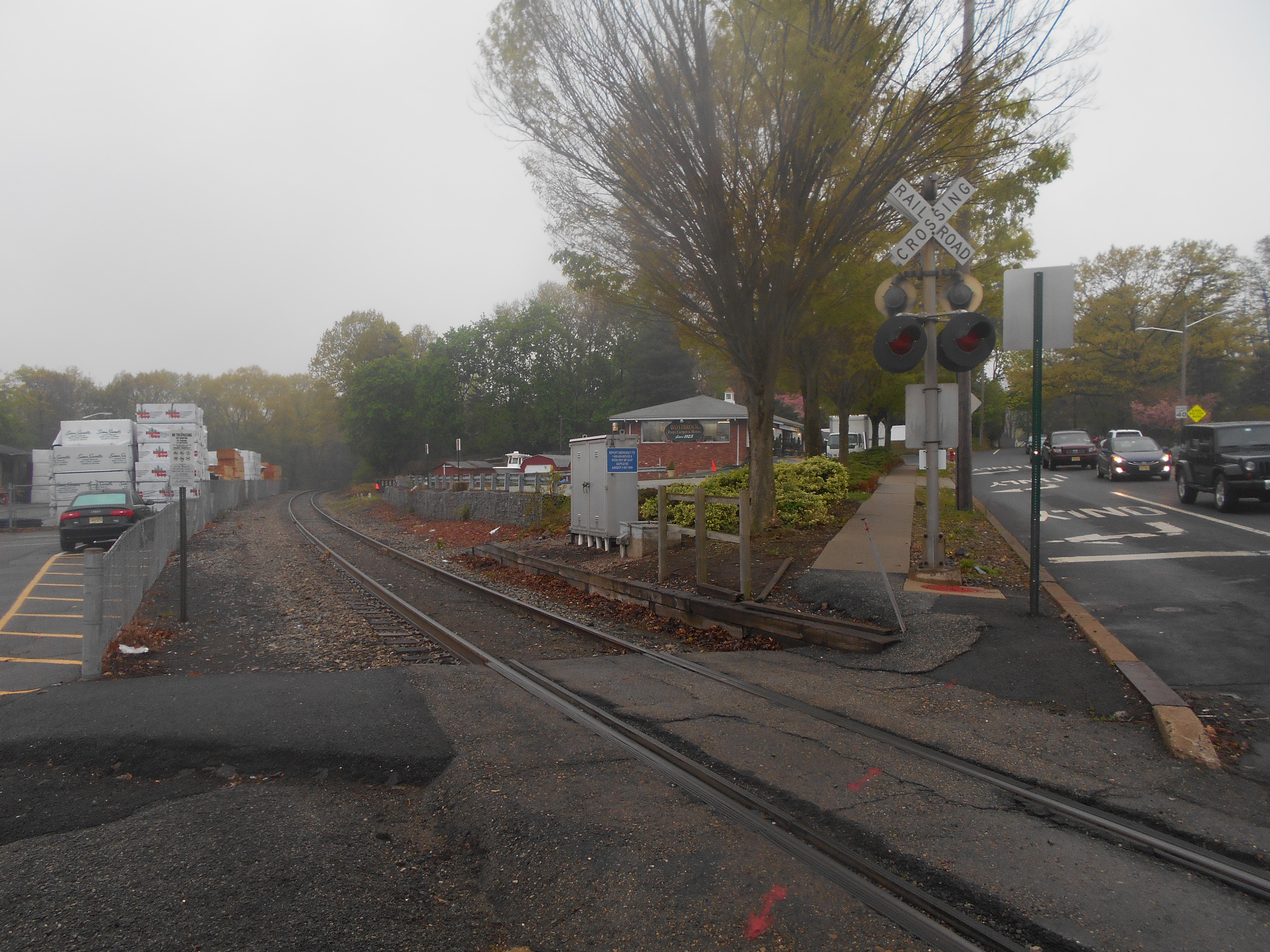 The former Midland Park Susquehanna Railroad depot in Midland Park, New Jersey.